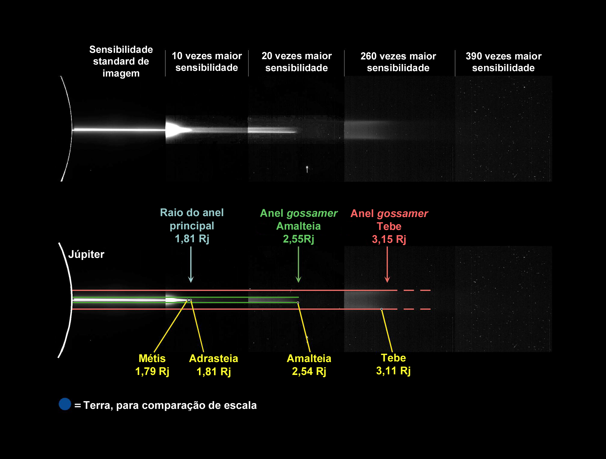 The mosaic of Galileo images of jovian rings with an explaining scheme.